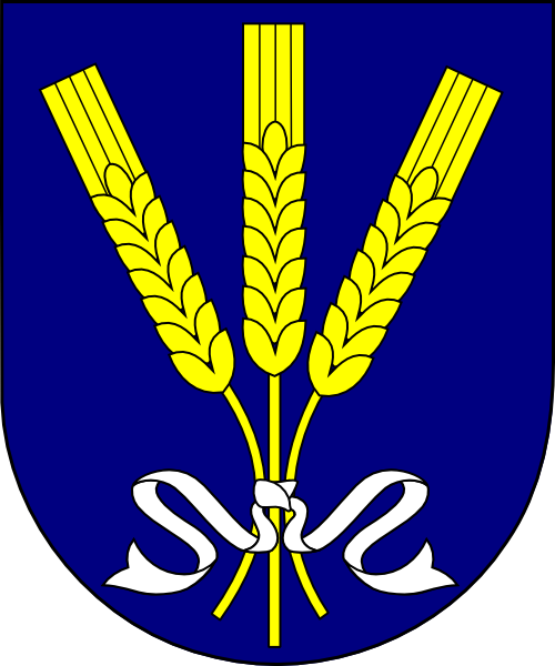 Coat of arms (shield only) of Johannes Evangelist cardinal Haller, archbishop of Salzburg, Austria (1890 - 1900). Based on his gravestone and on this medal: Tinctures based on Michael McCarthy's Heraldica Collegii Cardinalium.